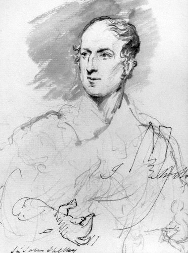 Sir John Shelley, 6th Baronet. 1815, pencil and ink. By George Hayter (1792-1871). Artist has been dead for 131 years.